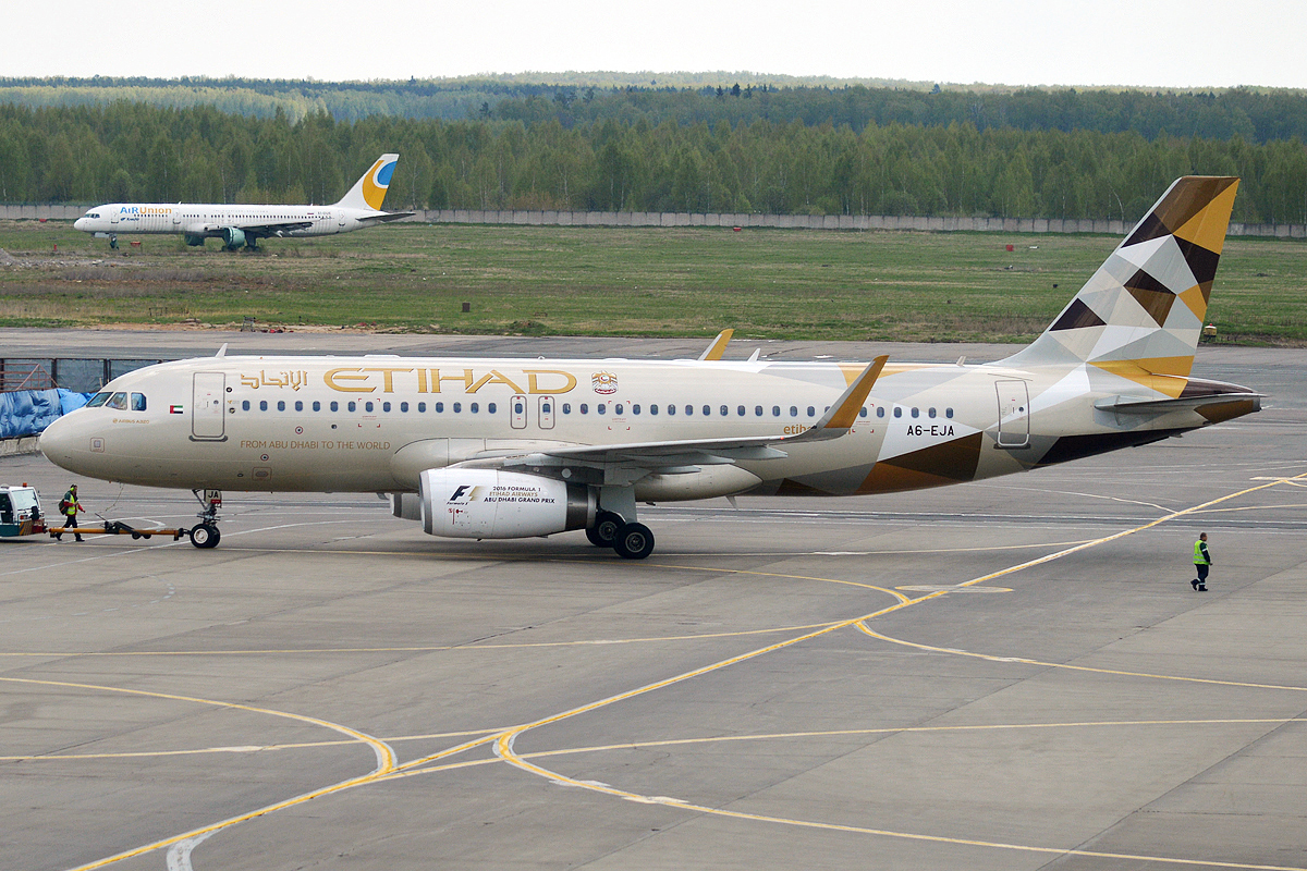 Etihad Airways, A6-EJA, Airbus A320-232